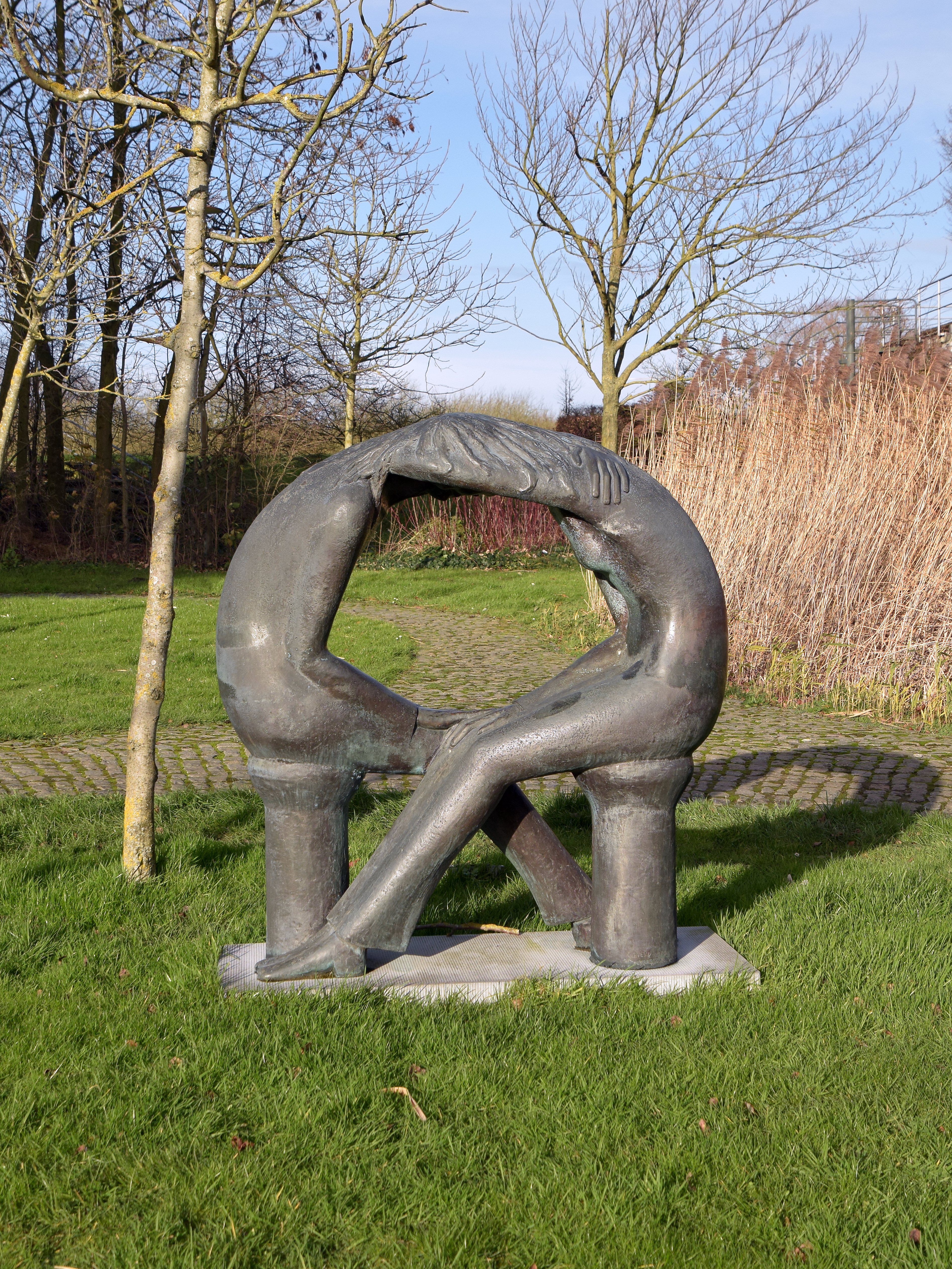 Statue in honor of poet Emile Verhaeren and his wife Marthe Massin. Statue by Jan Mees from Oppuurs in the "Marthe Massin garden" behind the tomb of Emile Verhaeren in Sint-Amands on the Scheldt.